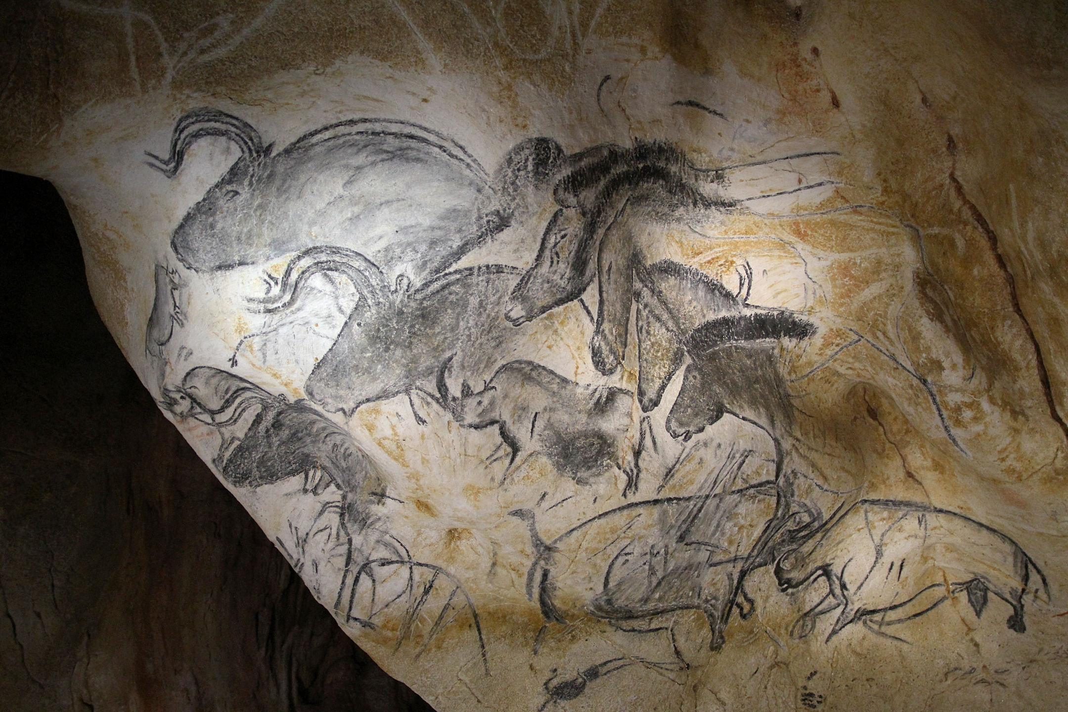 Horses Panel (left), bisons, rhinoceros faced. Wooden charcoal drawings with fading. Pont d'Arc cave (copy of the Chauvet Cave).